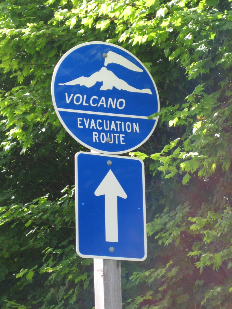 Volcano evacuation route sign, near Mount Rainier, Washington, United StatesMt Rainier